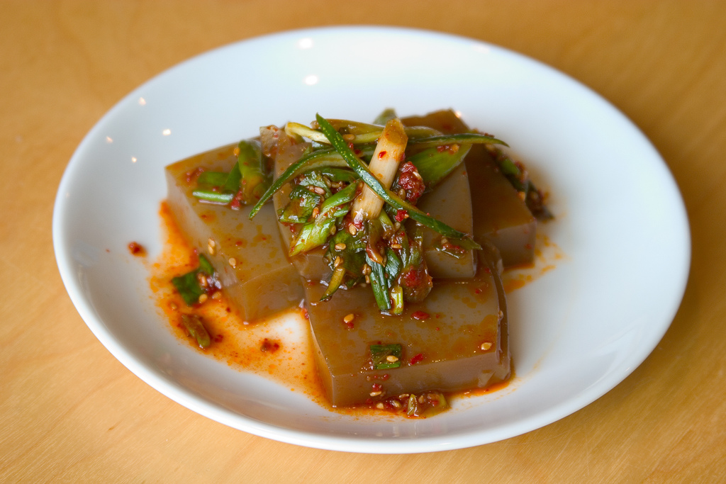 Dotorimuk, Korean acorn jelly